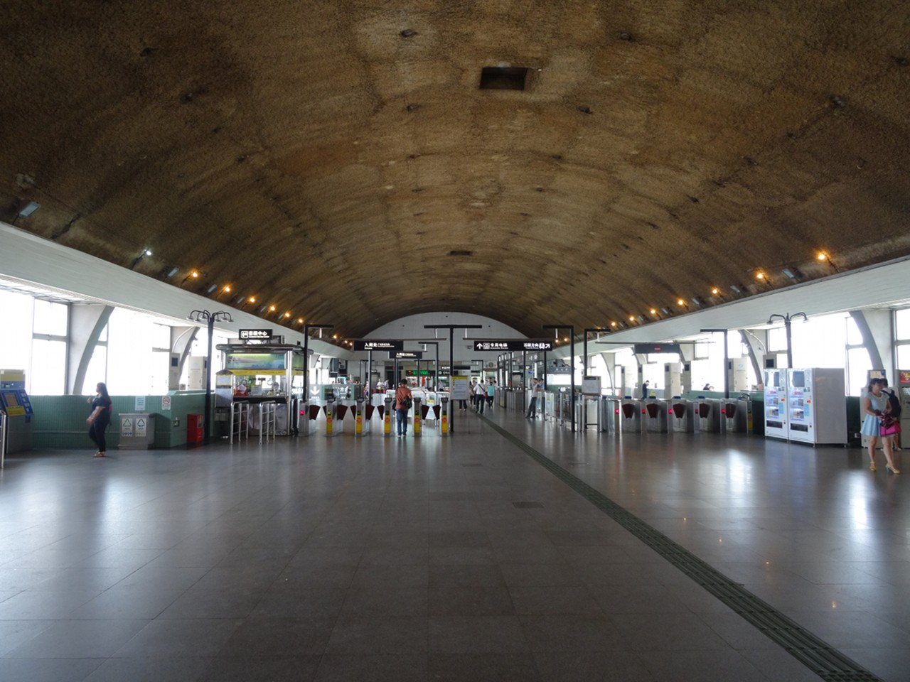 坑口站嘅站廳